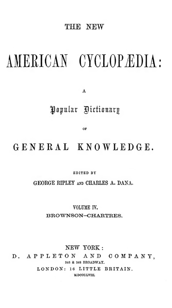 title page of volume 4 of the New American Cyclopaedia (1858)